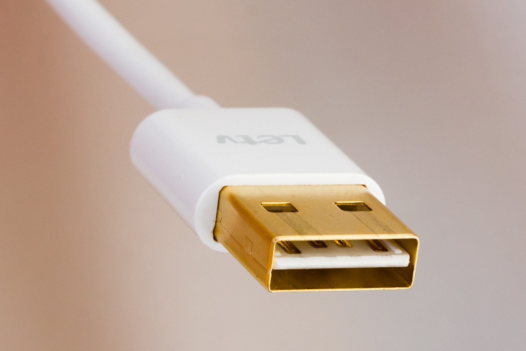 Reversible USB plug